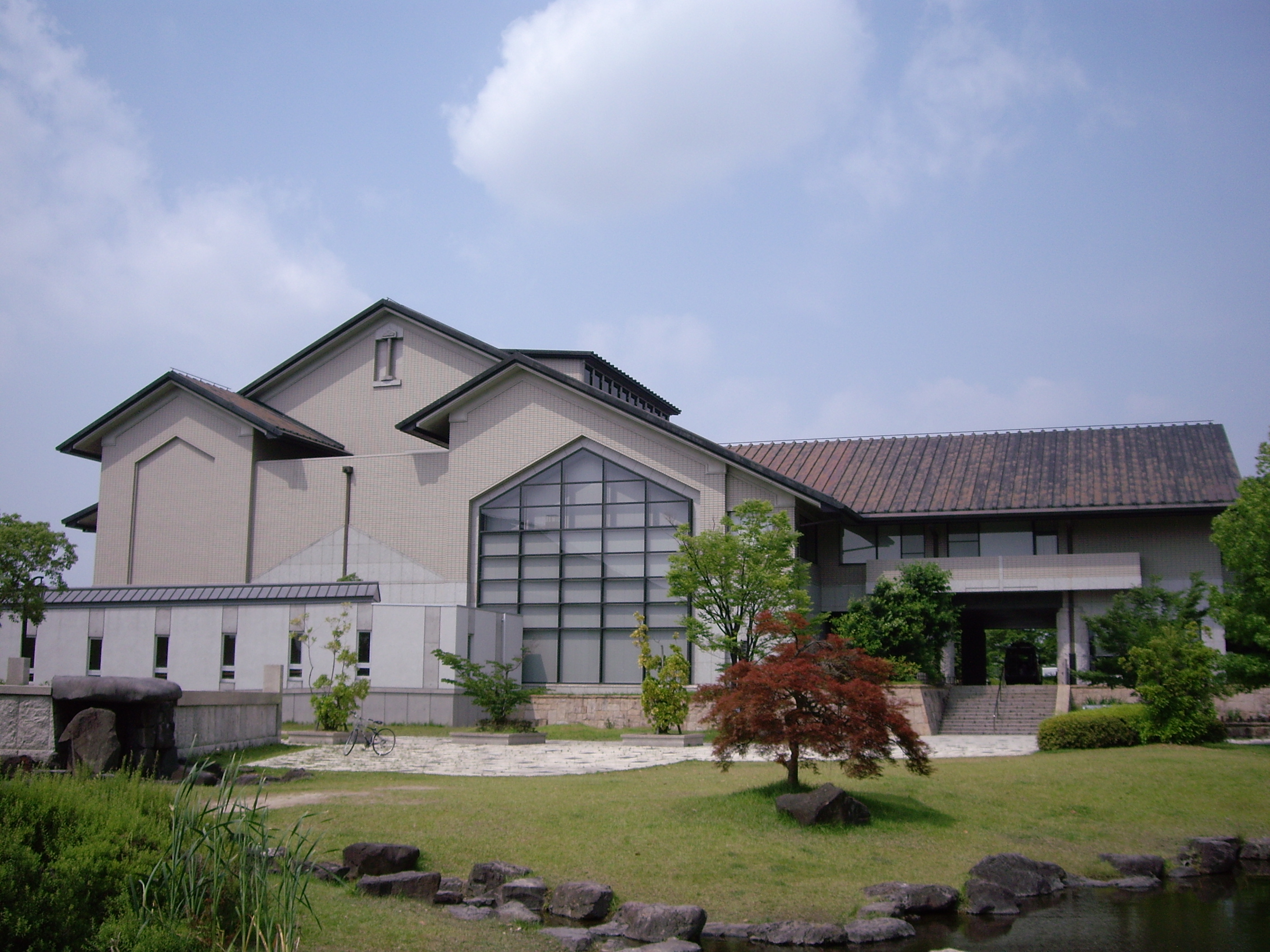 Anjo City Museum of History